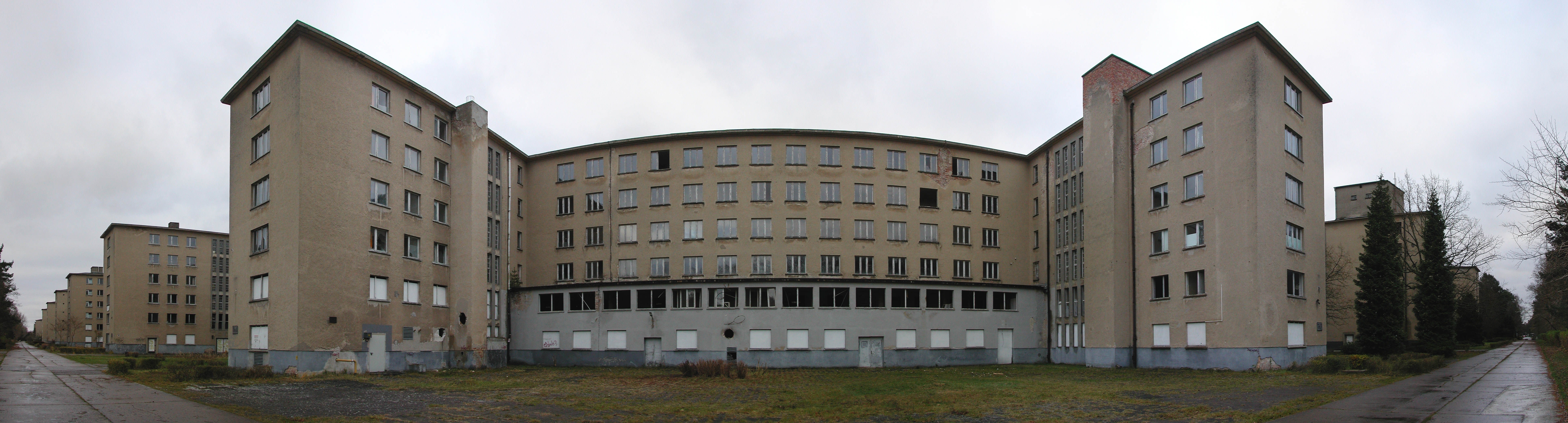 Panoramic view of the KdF-House at sea bath Prora. View from land side.